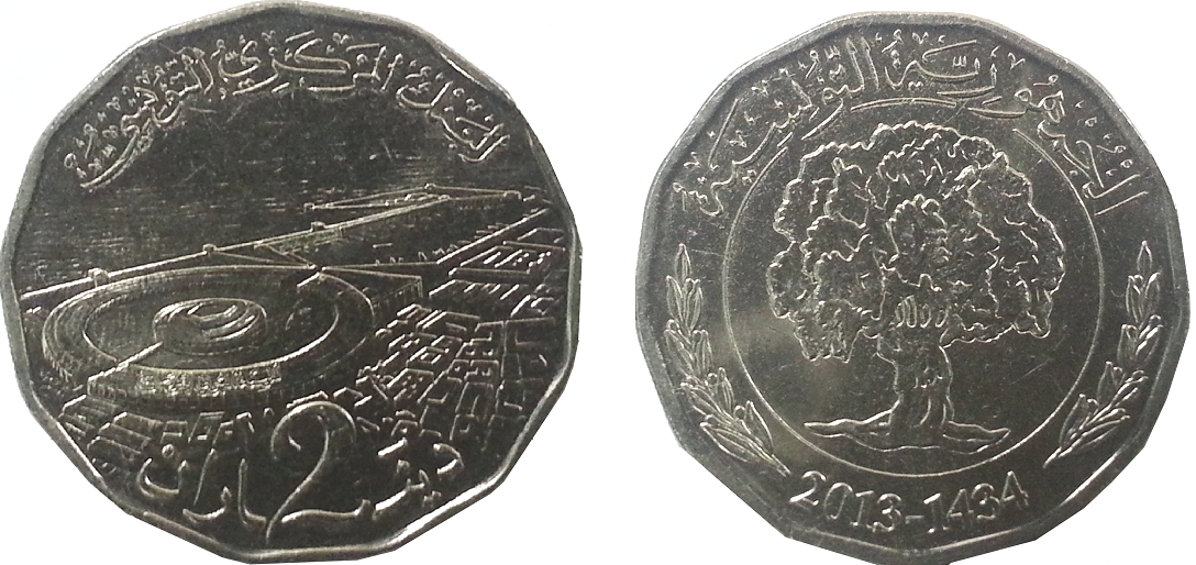 Two Tunisian Dianrs